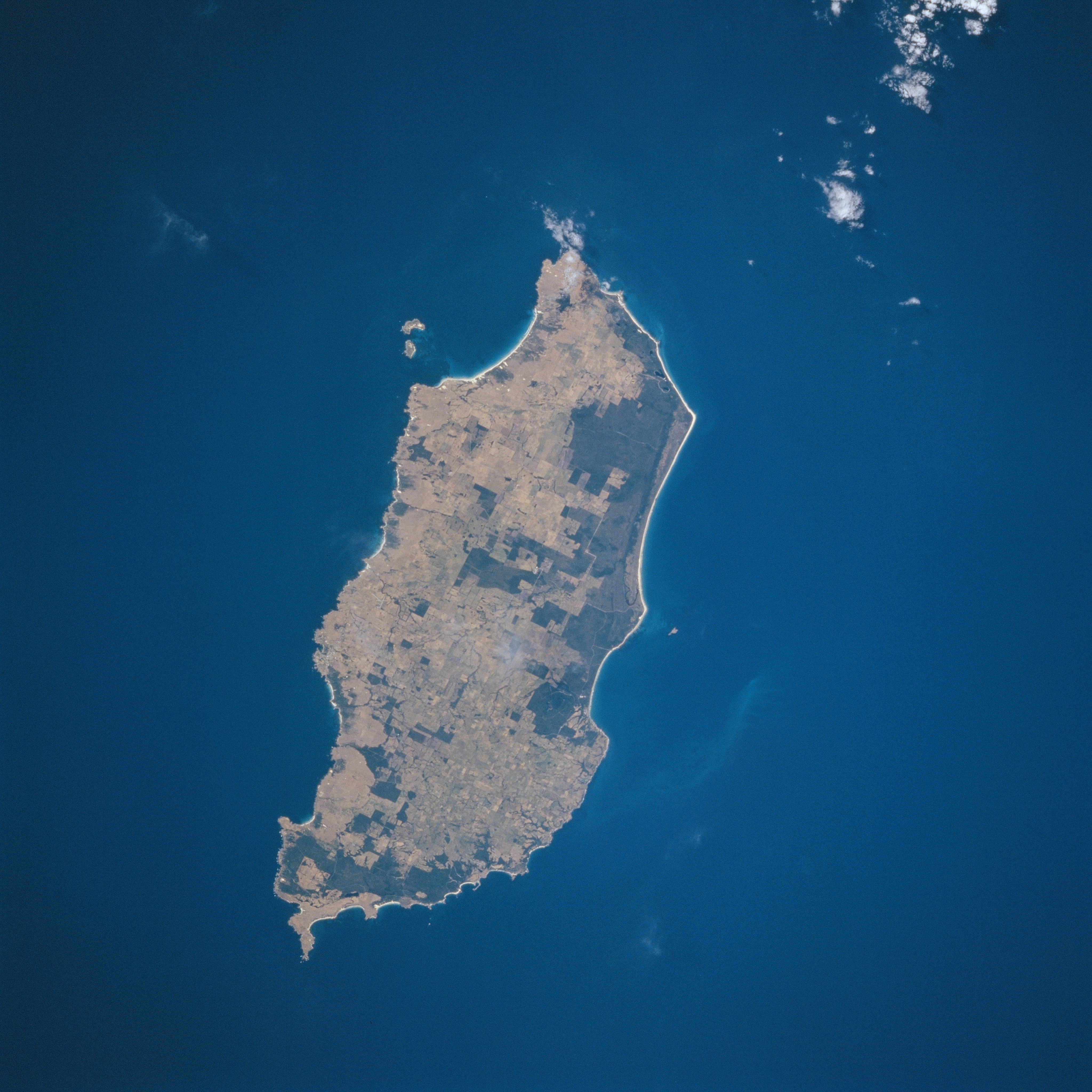 King Island, Tasmania, Australia